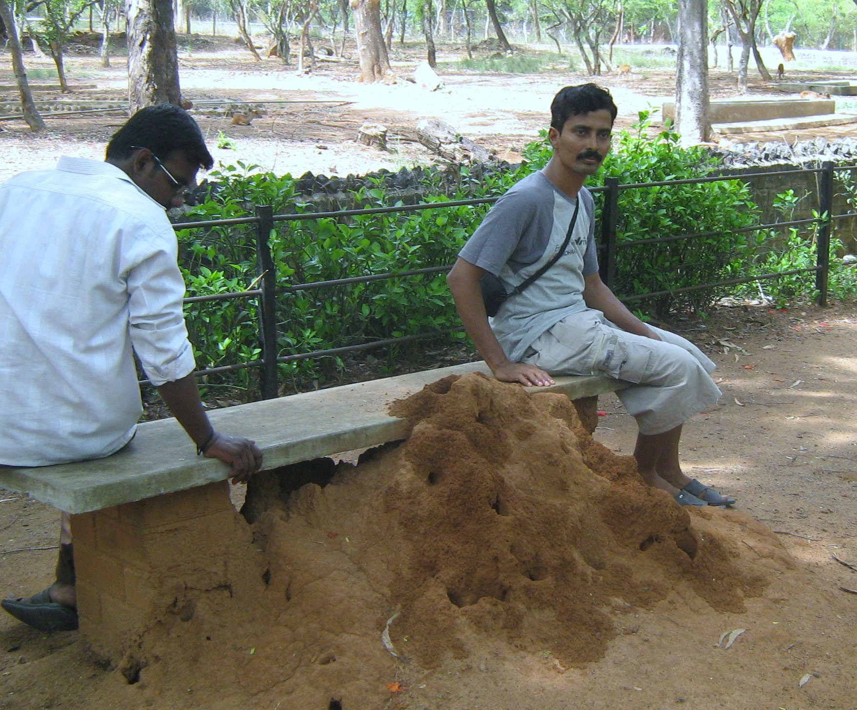 A Termite MOUND(small) in Tamil Nadu, India.2persons are sitting to know the size.